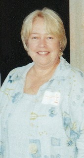 Kathy Bates at the rehearsal for the 1999 Emmy Awards